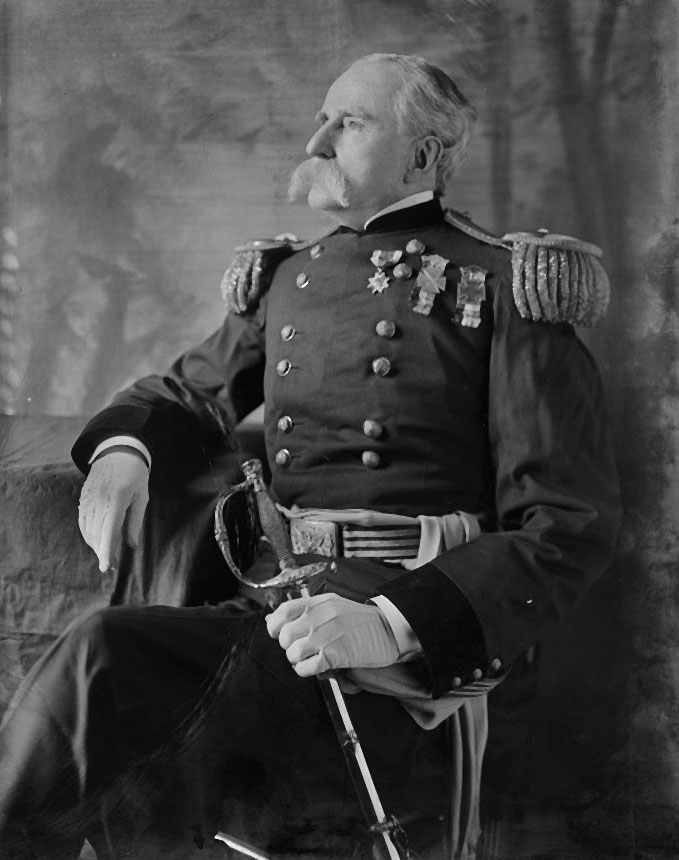 Brigadier General Guido Norman Lieber, U.S. Army brigadier general who retired as Judge Advocate General in 1901, Library of Congress, LC-DIG-hec-16748